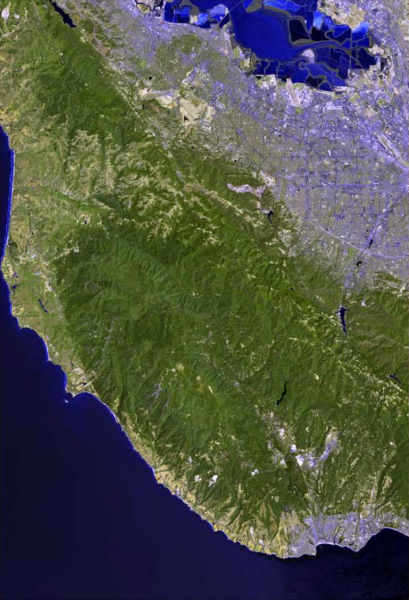 Aerial view of the Category:Santa Cruz Mountains - in northern California]. The raw satellite imagery shown in these images was obtained from NASA and/or the US Geological Survey. Post-processing and production by .